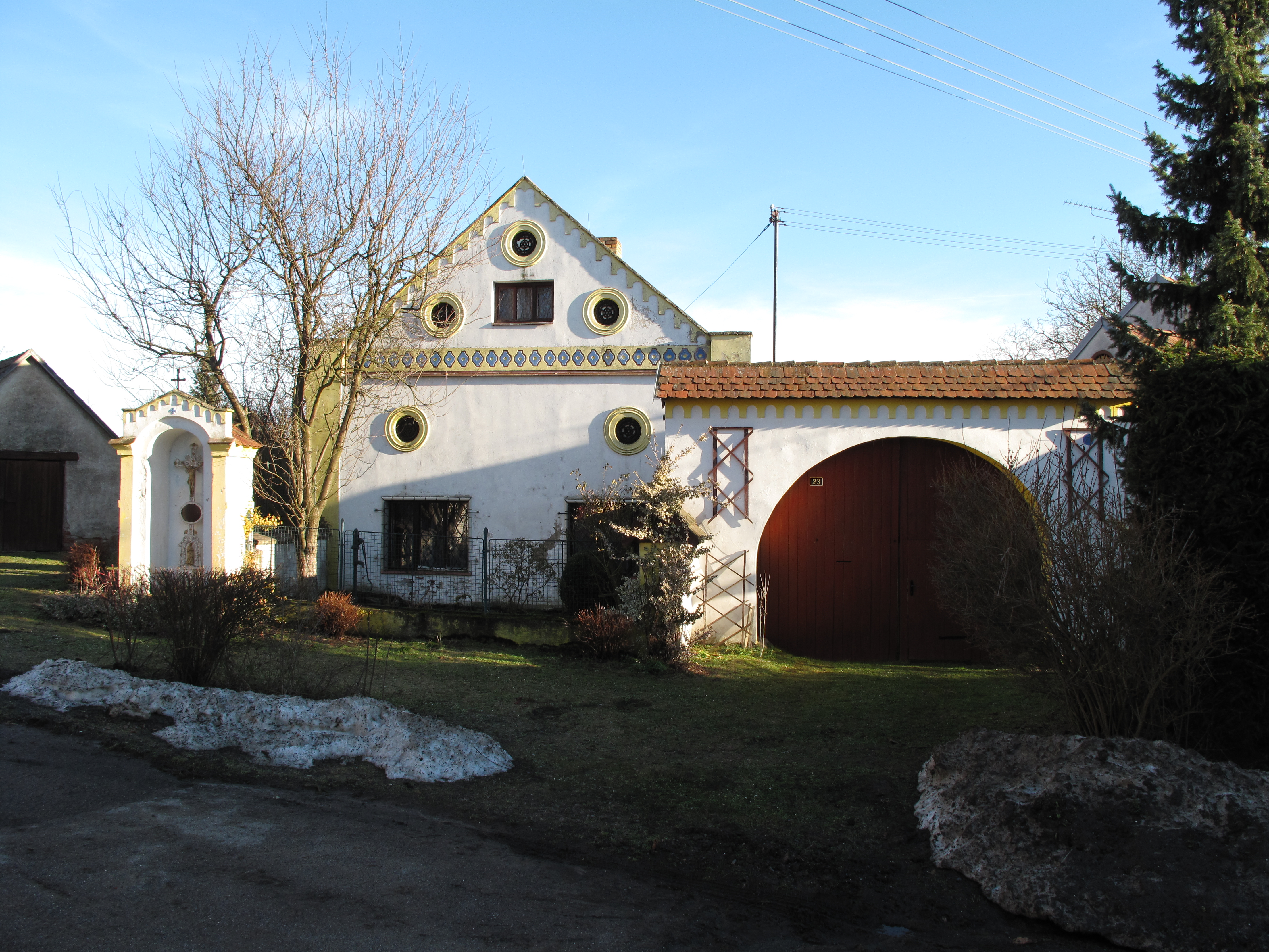 Gable with gate in Křížov village, Příbram District, Czech Republic.